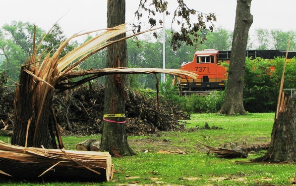 Tornado damage Streator IL taken eight days after June 5 2010 touchdown. Please credit Photo by John LeGear at with permission via Creative Commons license.